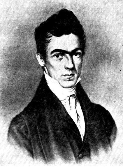 Drawing of Mariano de Aycinena